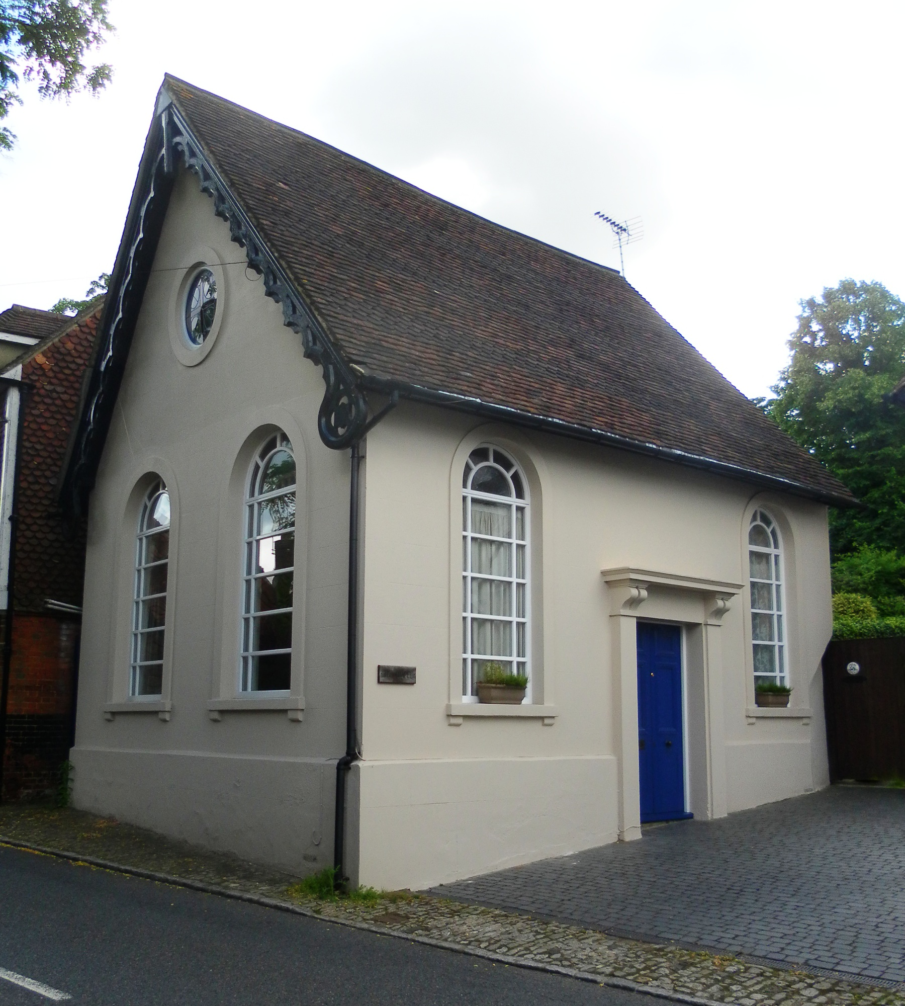 Former Bible Christian Chapel, Chipstead, District of Sevenoaks, Kent, England. Now a house. Listed at Grade II by English Heritage (NHLE Code 1244282)